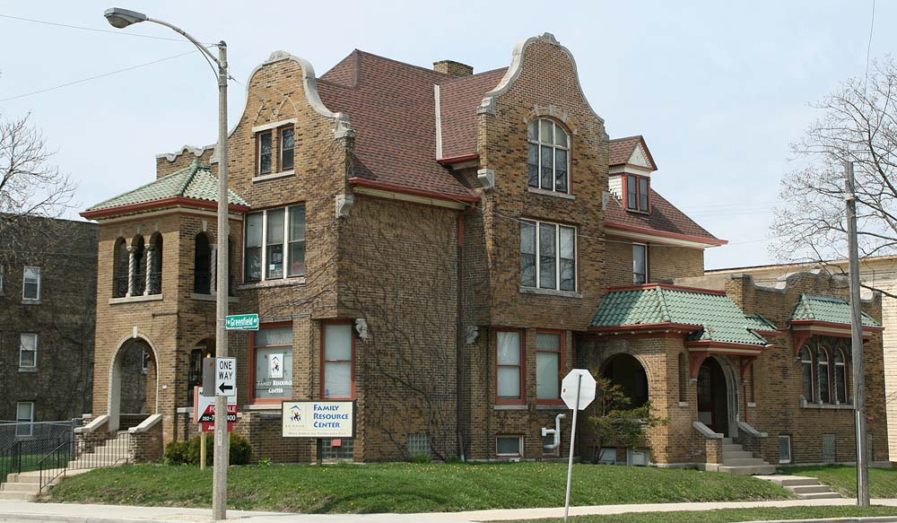 Lohman Funeral Home and Livery Stable, Milwaukee, Wisconsin. National Register of Historic Places. Livery stable not shown. See File:Lohman Livery Apr11.jpg